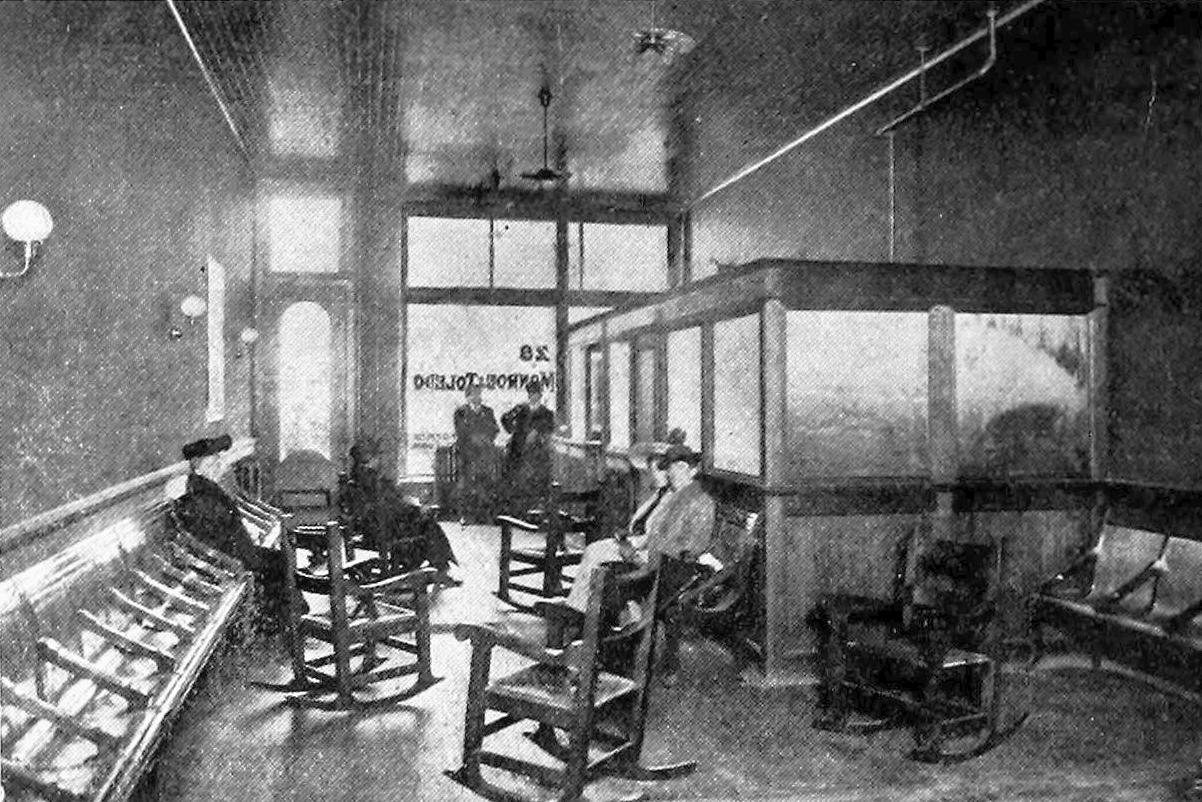 Passenger waiting area located in Detroit, Michigan, of the Detroit, Monroe and Toledo Railroad.